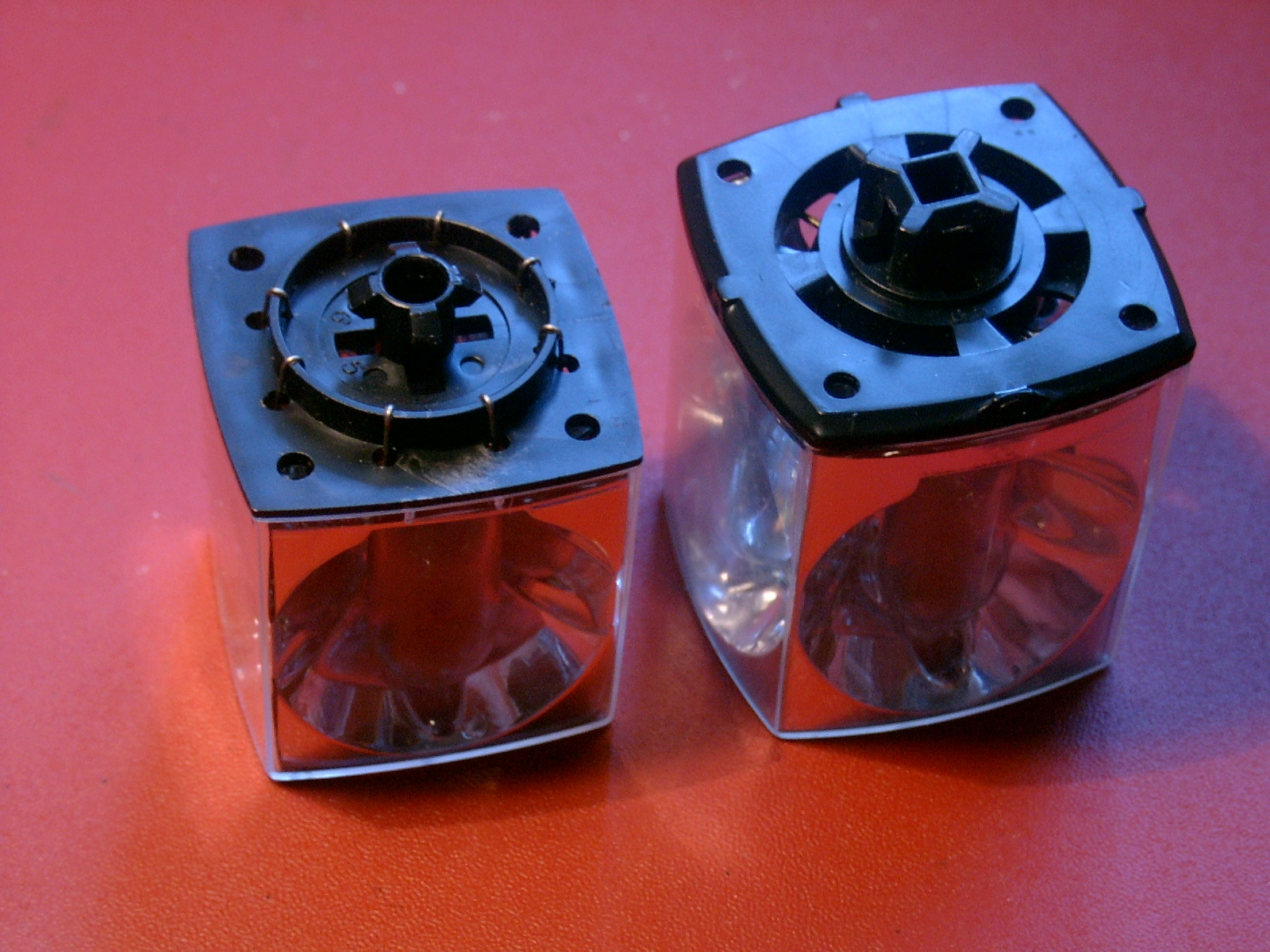 "Flashcube" and "Magicube" flashbulb cartridges. The "Flashcube" is electrically ignited, the "Magicube" is ignited mechanically via a firing pin